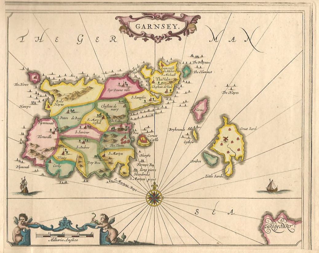 old map of Guernsey (Garnsey) showing subdivisions (parishes?)